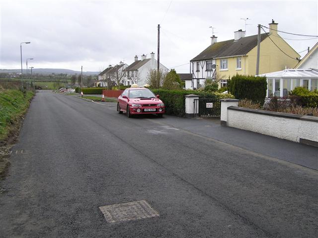 Road at Ardgarvan Located near Gallows Hill